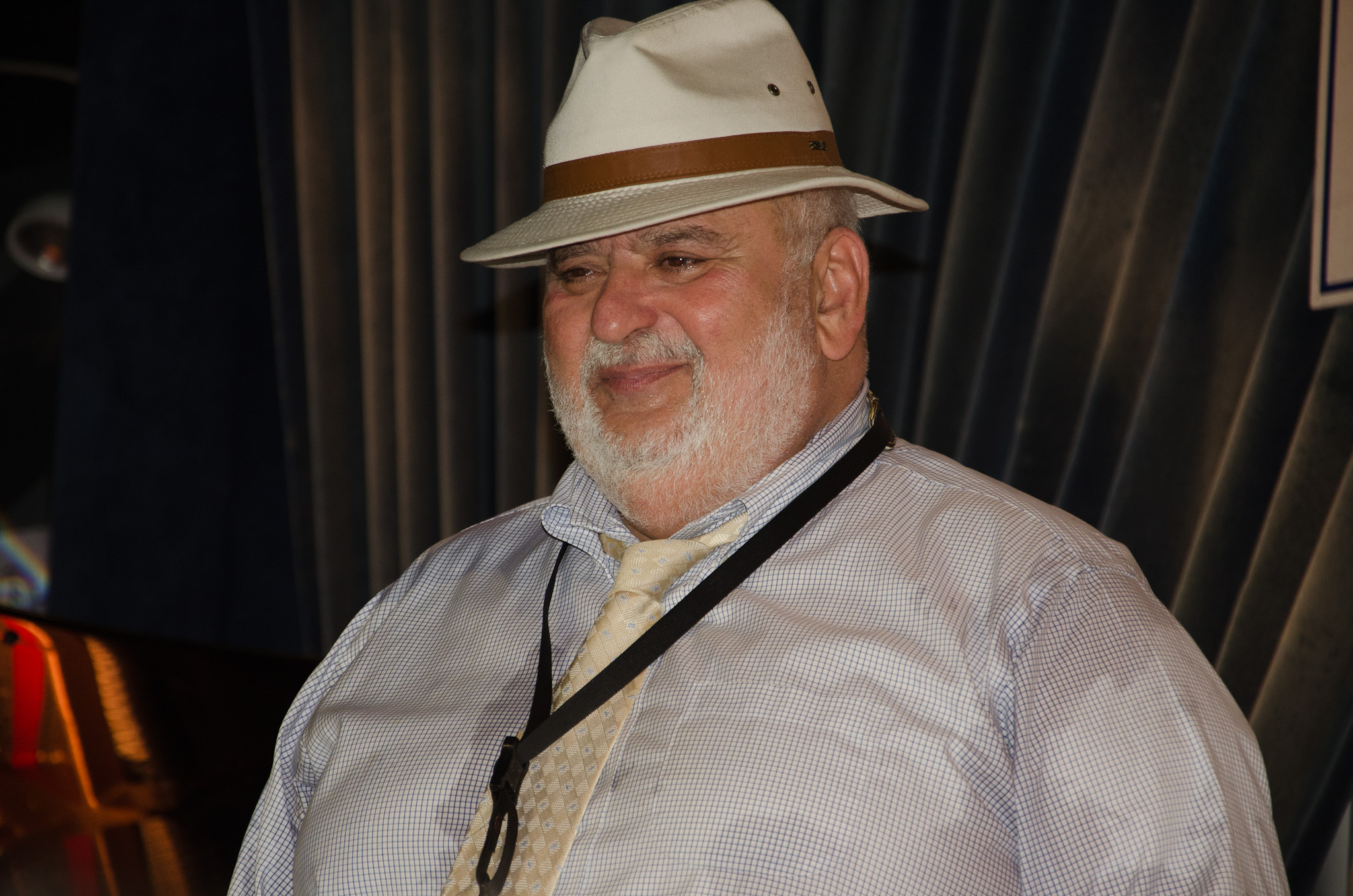 Bobby Militello at Blue Note Club - June 13, 2011